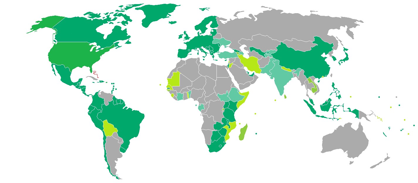 Visa requirements for Bahamian citizens The Bahamas Visa free access Visa on arrival eVisa Visa available both on arrival or online Visa required